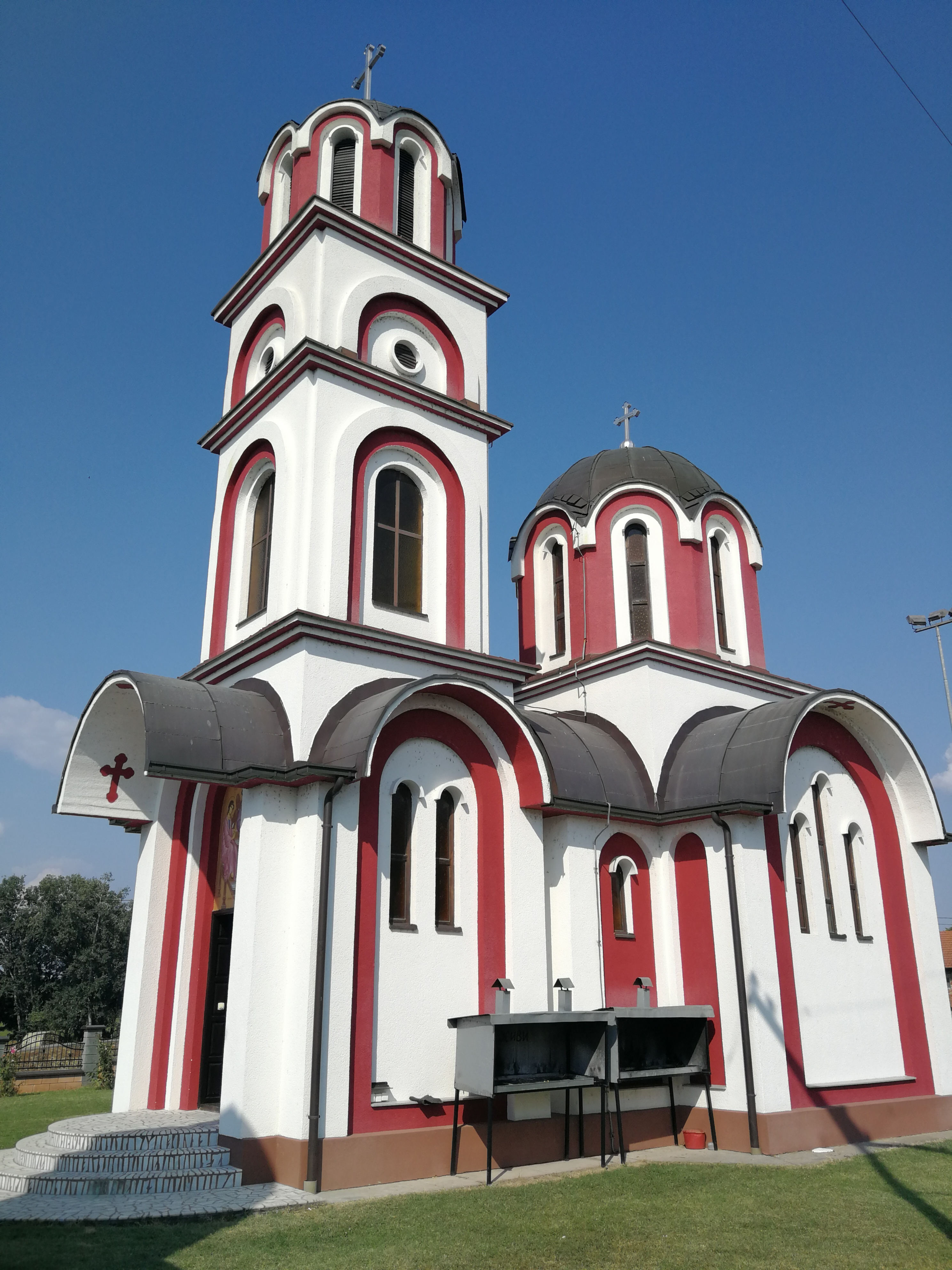 Memorial ortodox church in Krepsic